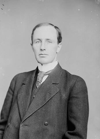 Photograph of Arthur Meighen (1874-1960)